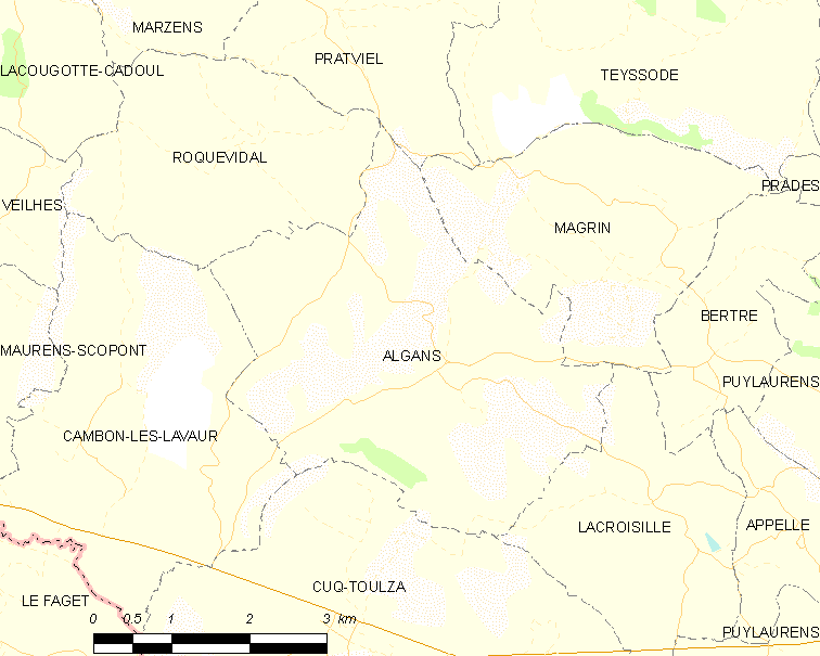 Map of French municipality Algans